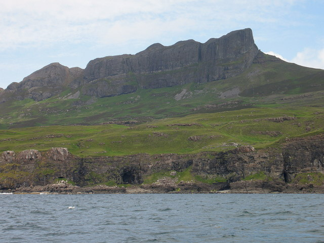 The Sgurr, Eigg. Taken from a sailing boat on the way from Tobermory to Muck.